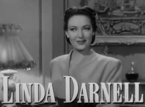 Cropped screenshot of Linda Darnell from the trailer for the film A Letter to Three Wives